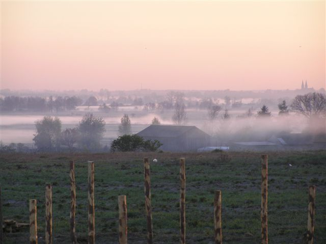 Wysmierzyce surroundings at Pilica river.